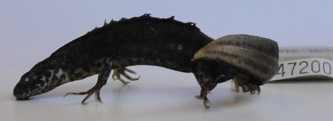 Triturus ivanbureschi holotype, adult male from Bulgaria.